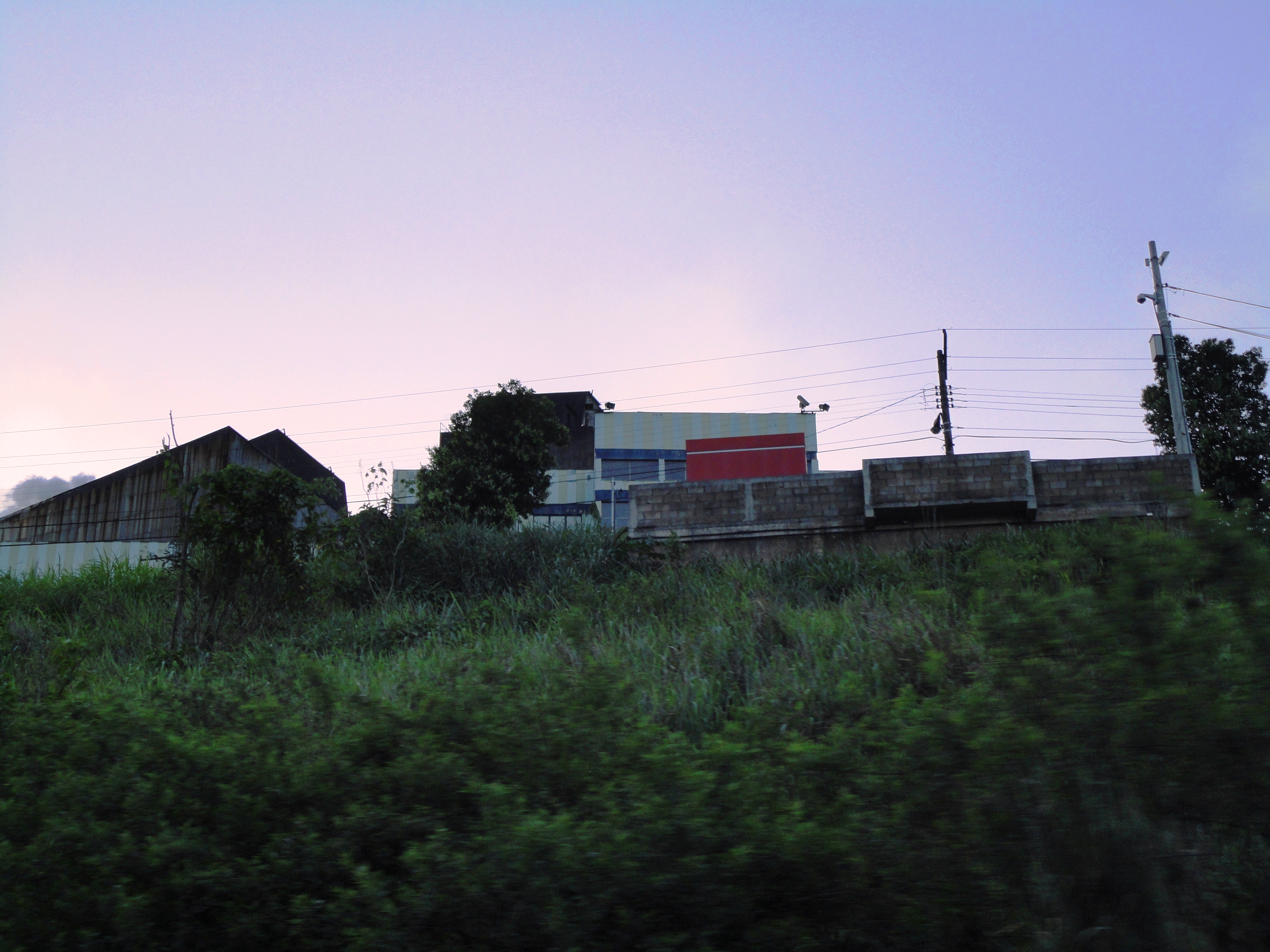 ArcelorMittal João Monlevade building (Companhia Siderúrgica Belgo-Mineira), in João Monlevade, Minas Gerais, Brazil.